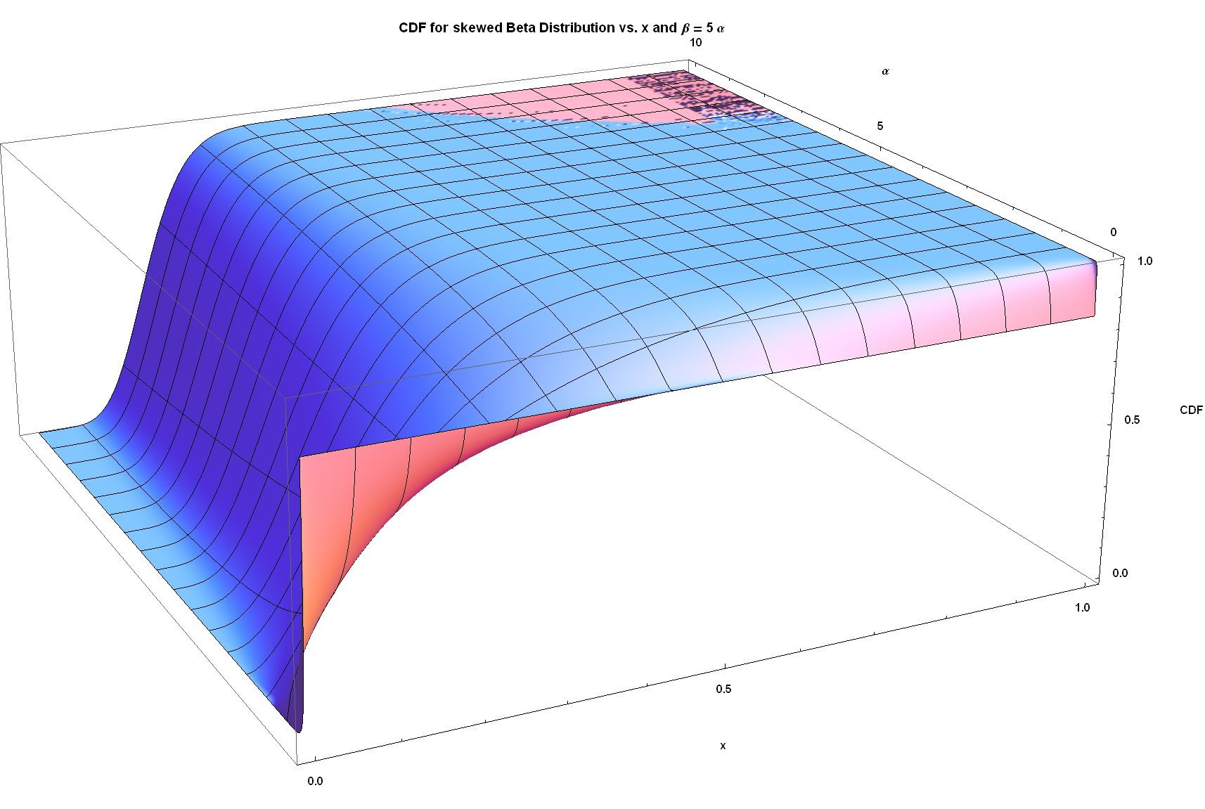 CDF for skewed Beta distribution vs. x and beta= 5 alpha - J. Rodal